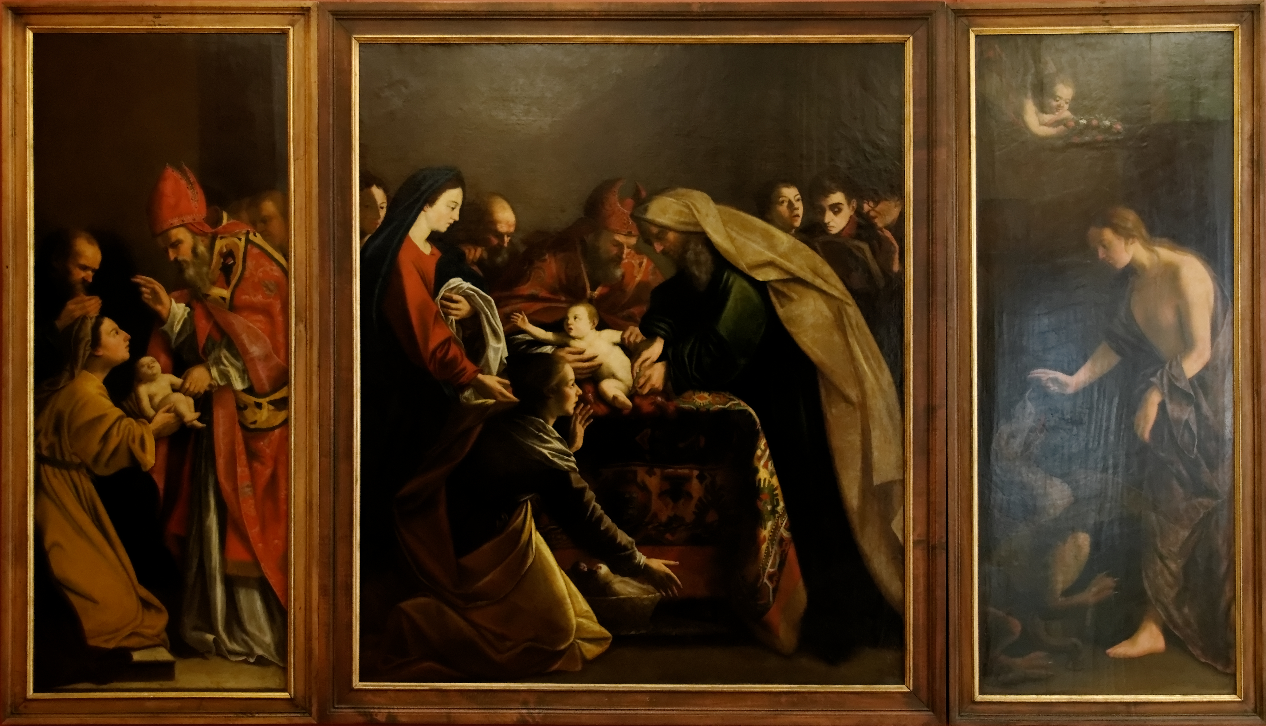 The Circumcision Triptych